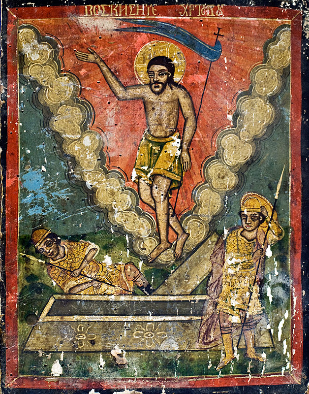 The Resurection of Christ, old Bulgarian icon